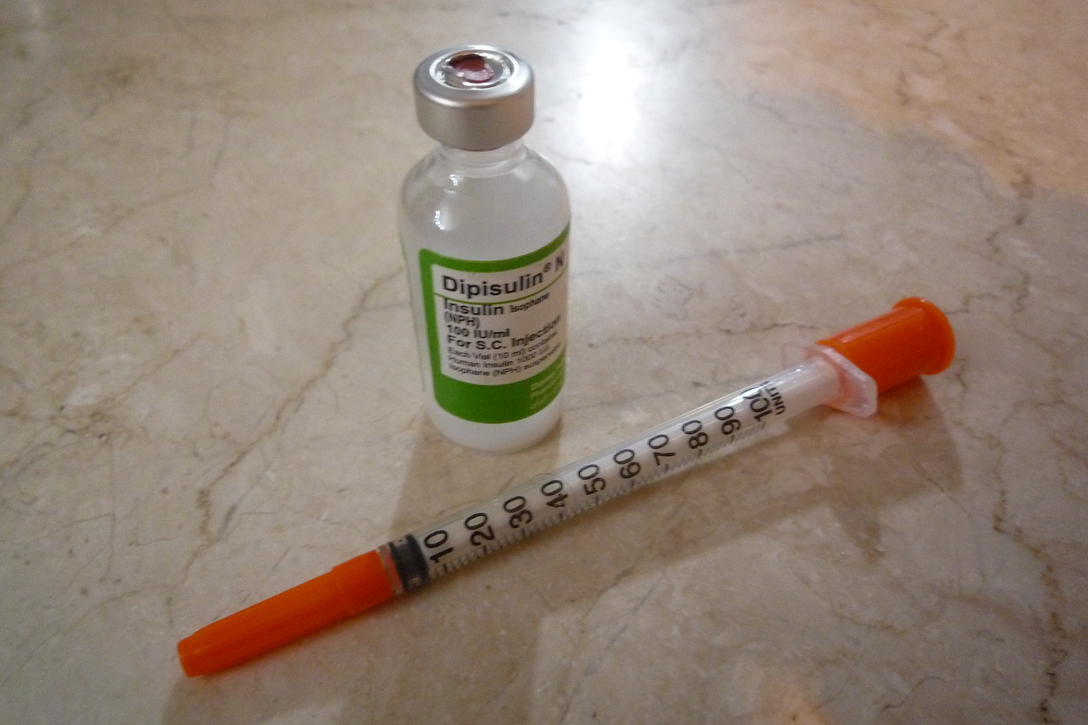 this photo take from Insulin and Syringe